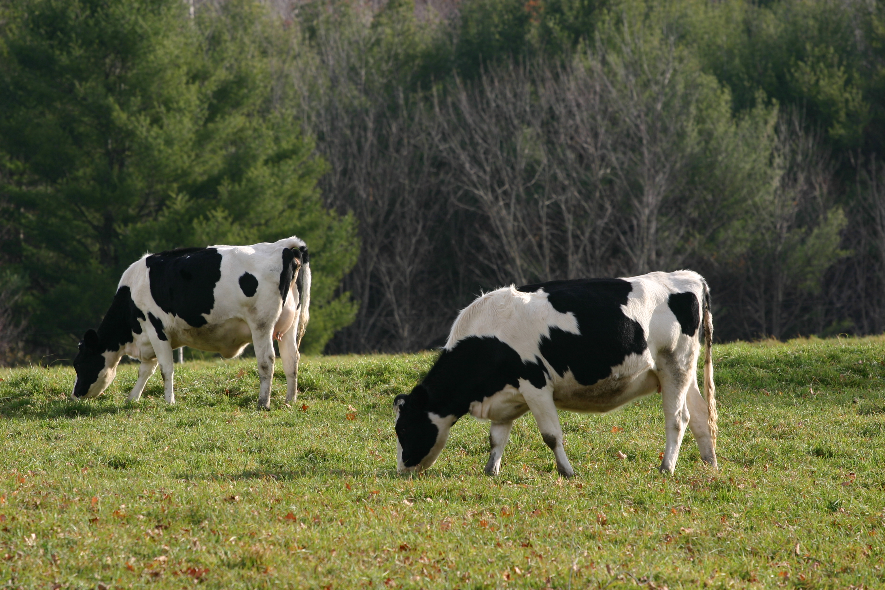 Cattle on pasture somewhere near Wantastiquet Mountain, near Vermont, USA